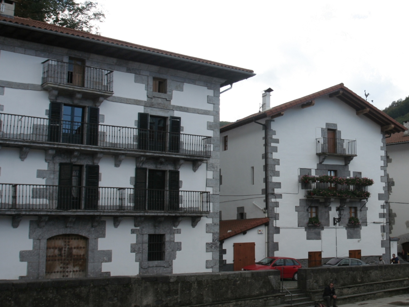 Petrorena (left) and Torrea (right), two houses of the Baleztena family in Leitza